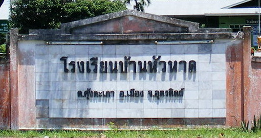 BBan Huahat School.Location: Ban Huahat School Ban Huahat, Khung Taphao subdistrict, Mueang Uttaradit, Uttaradit Province, Thailand.